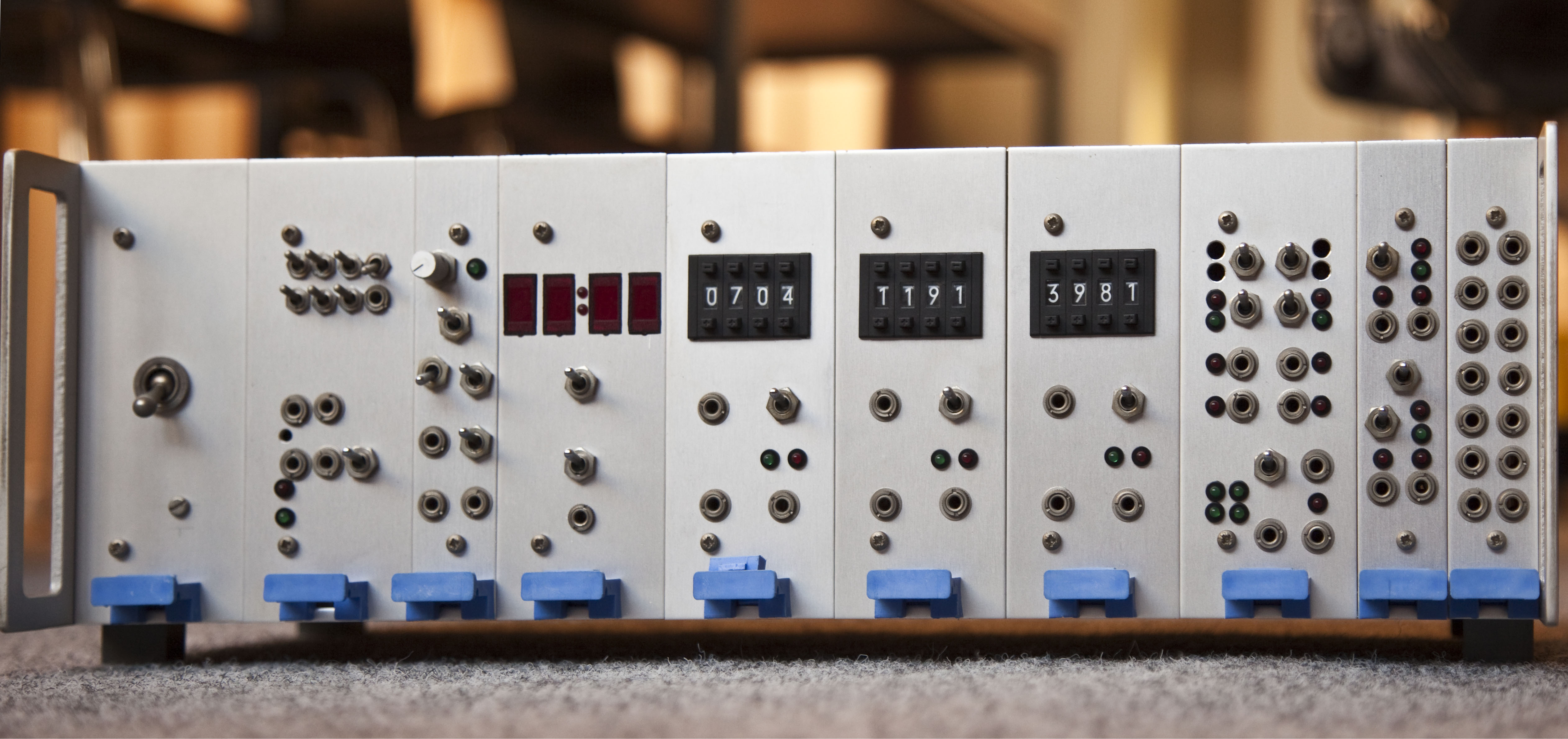 A pre-digital Sequencer constructed at the College for Music (Musikhochschule) in Cologne, Germany, by the sound engineer Marcel Schmidt in 1980. The device was used to trigger signals in a Moog modular synthesizer and an ARP 2500. Famous classical composers interested in the field of electronic music used the studio massively for their work.